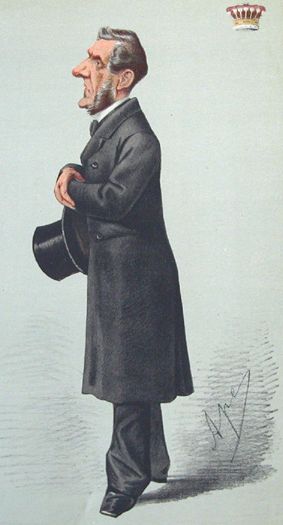 Caricature of Anthony Ashley-Cooper, 7th Earl of Shaftesbury from "Vanity Fair", 1869. Caption read "He is not as other men are, for he is never influenced by party motives."